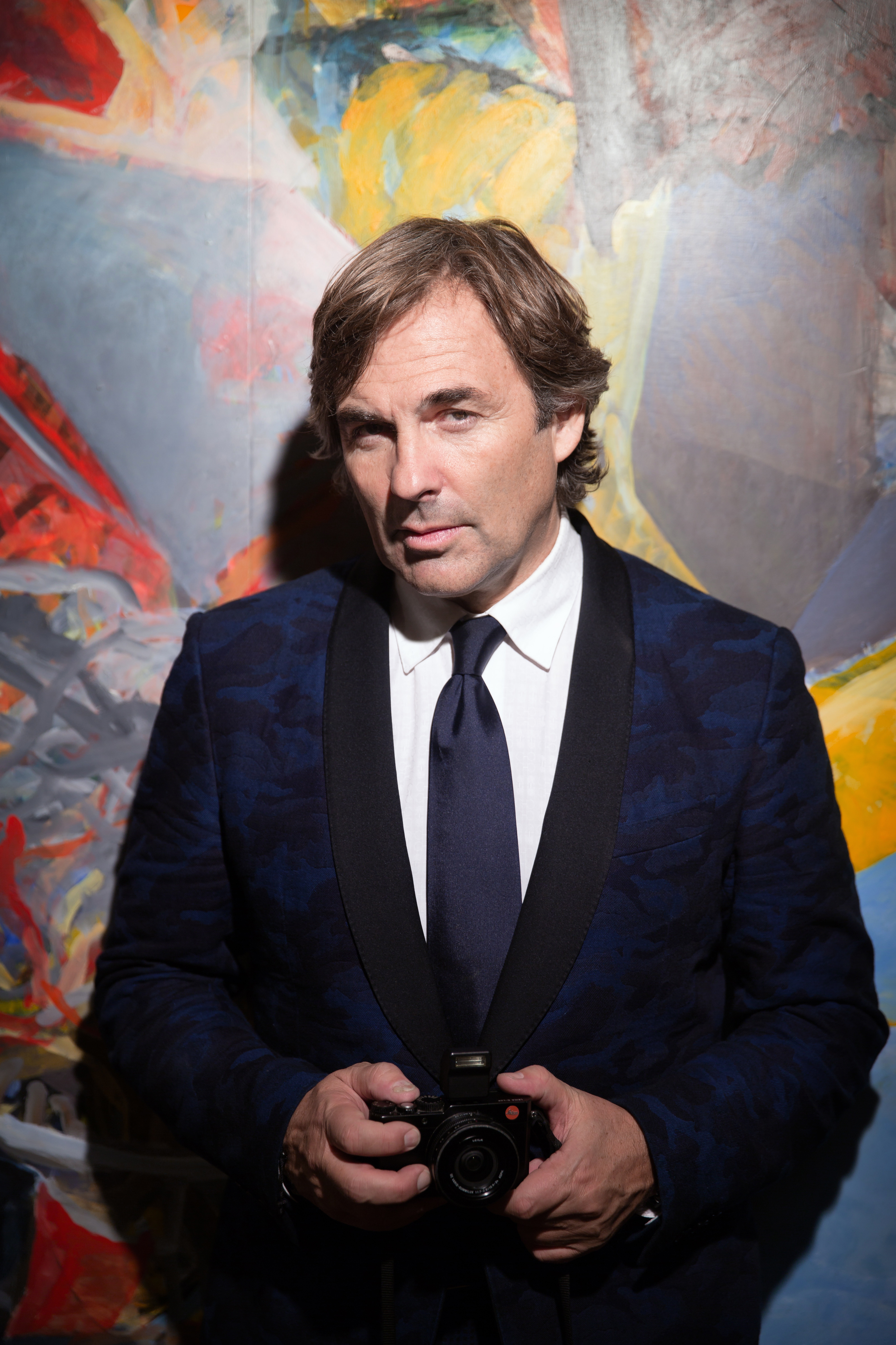 Hubertus von Hohenlohe at the awards gala for the Austrian Sportspersonalities of the Year 2015 (Austria Center Vienna).